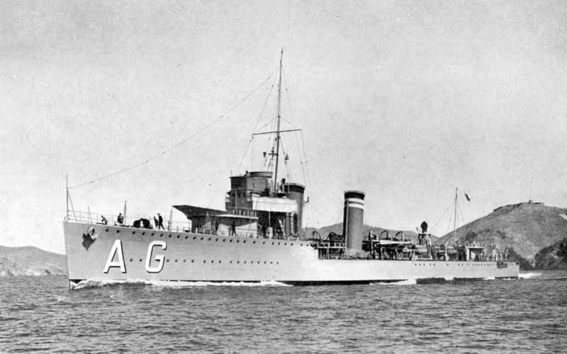 Destroyer Alcalá Galiano (AG), Churruca I class (1929)